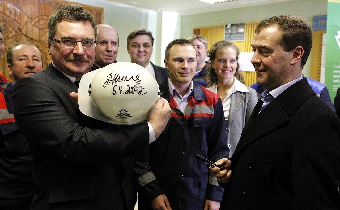 Russian President Dmitry Medvedev with workers mining and processing enterprise "Apatit" (Kirovsk, Murmansk region).